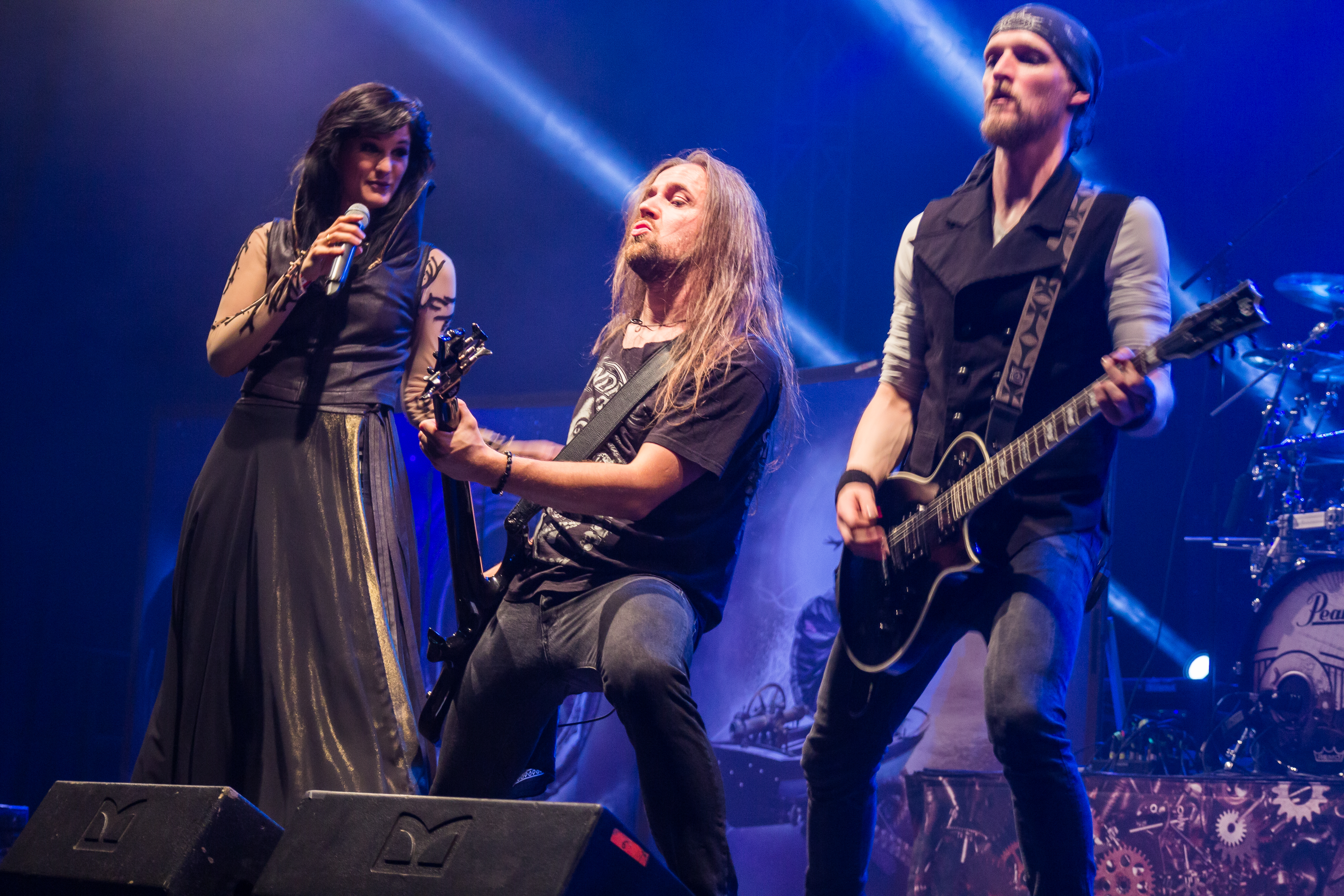 The German symphonic metal band Xandria at the Wave-Gotik-Treffen 2017 in Leipzig/Germany (Venue Kohlrabizirkus).